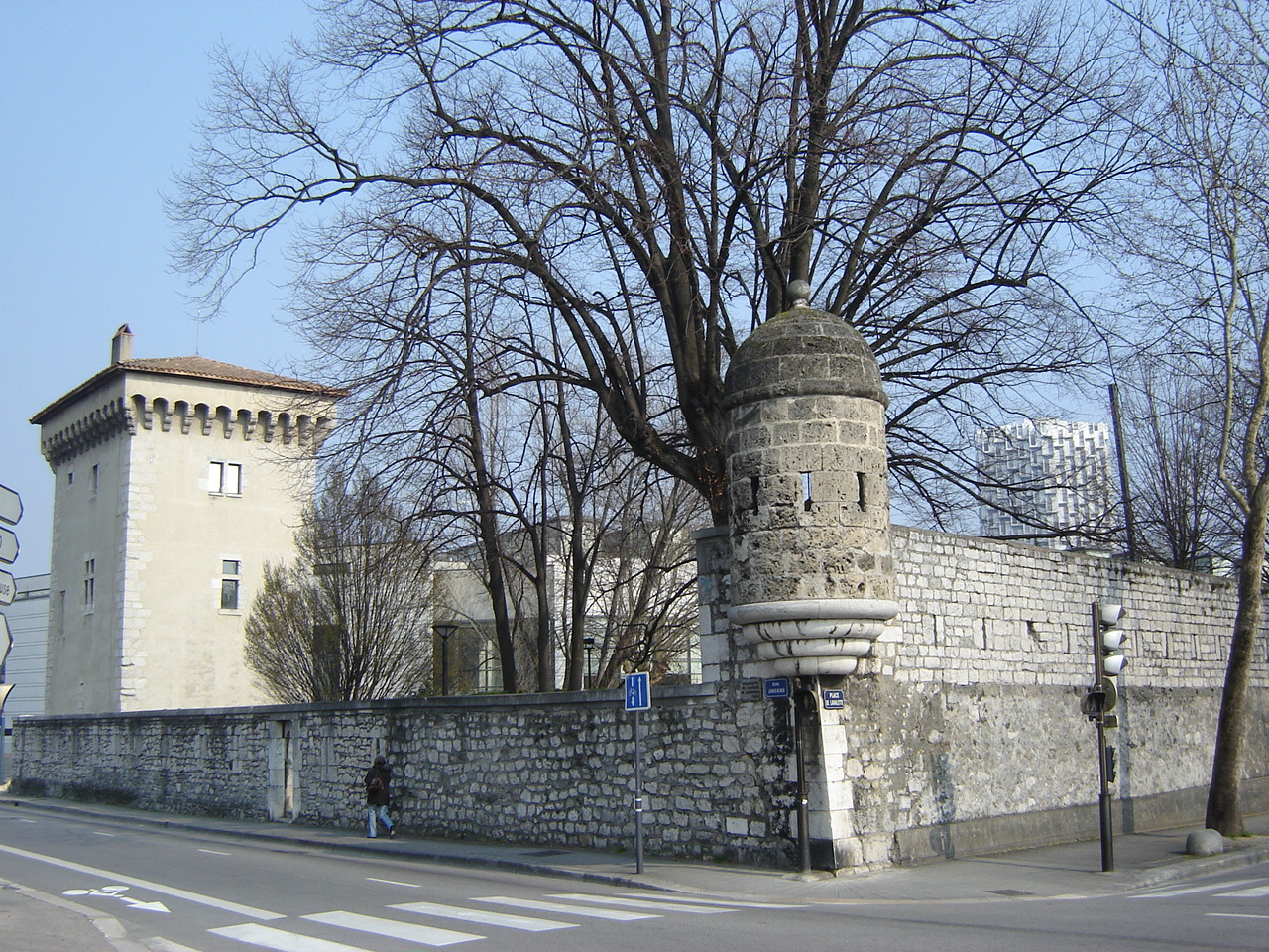 Defensive wall near Musée de Grenoble, Grenoble